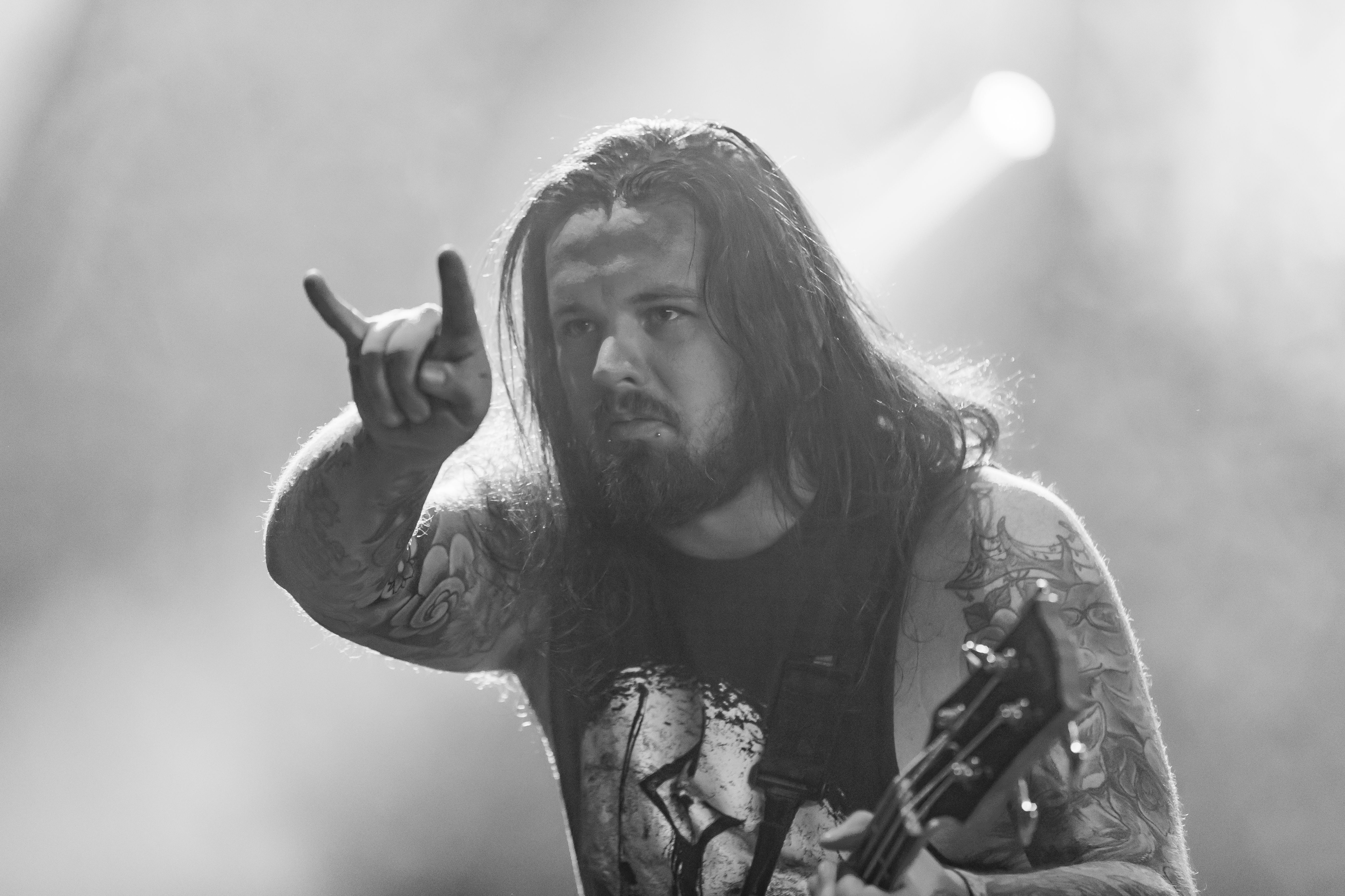 Bury Tomorrow during Summer Breeze 2016 at , Dinkelsbühl, Bayern, Germany on 2016-08-17, Photo: Sven Mandel